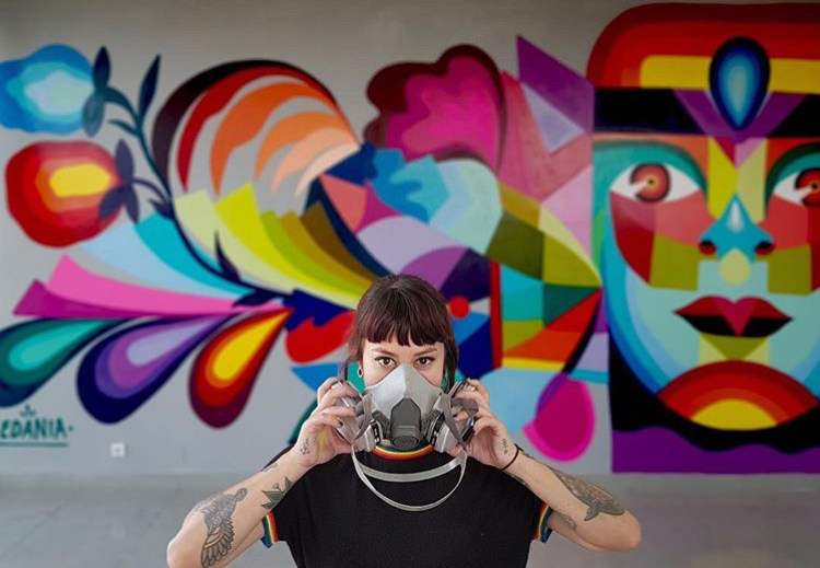 Ledania in front of her mural painted in Indonesia in 2017